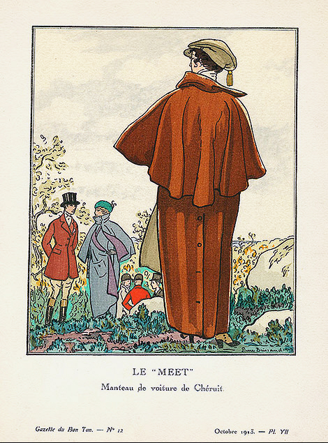 Fashion by Louise Chéruit - automobile coat, illustration by Pierre Brissaud, published in La Gazette du Bon-Ton, 1913